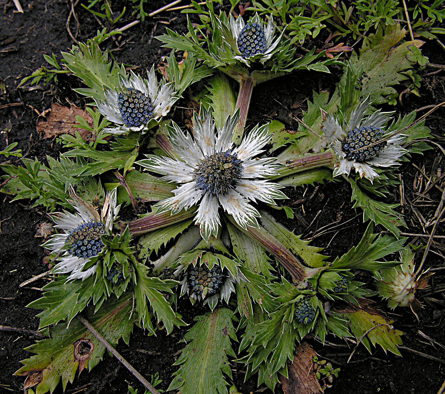 From Cortez Pass, Mexico, where it is known as Hierba de Sapo. Native from here to Panama in the mountains. In context at